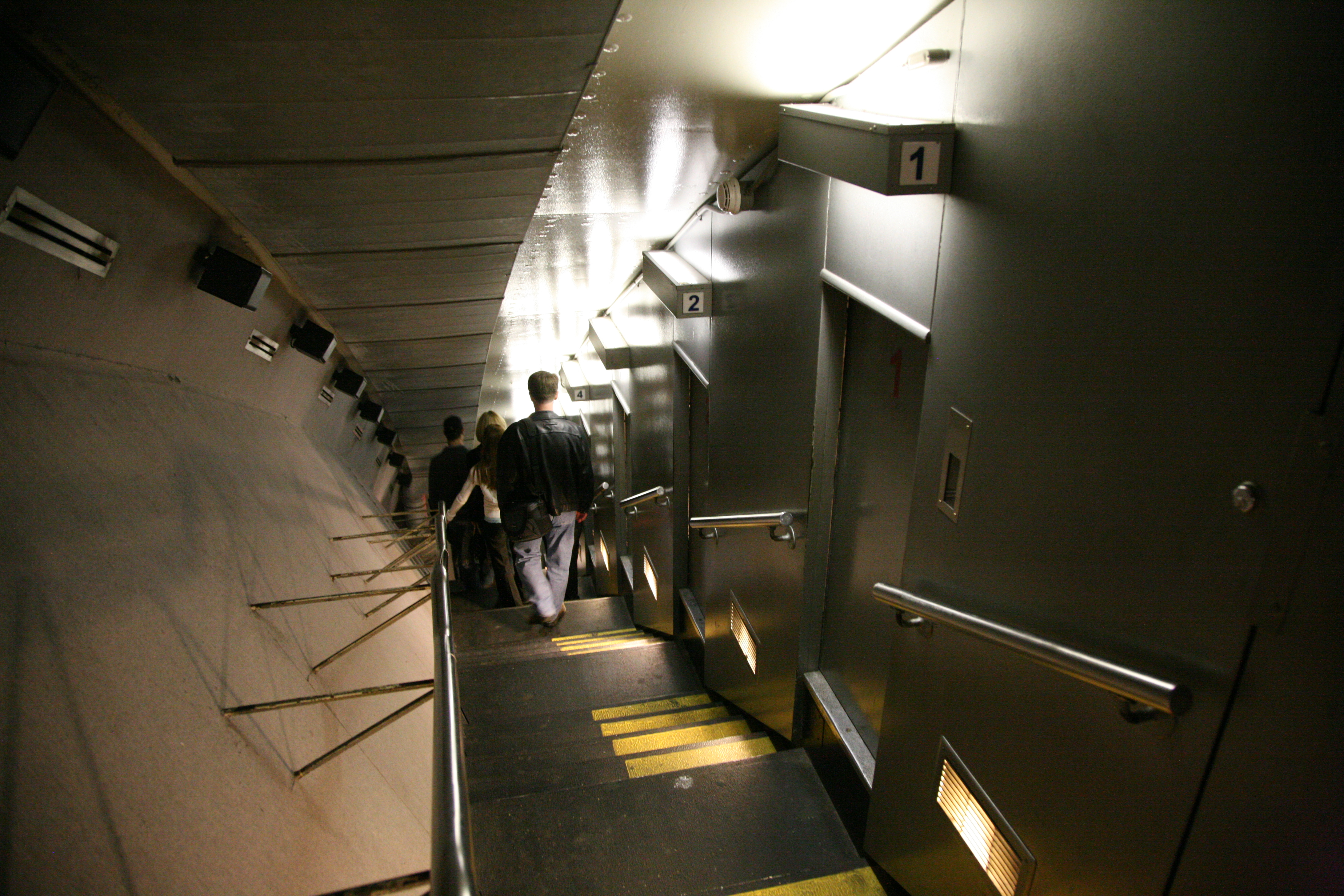 Observation platform stop of the Gateway arch north tram. St. Louis, MO, USA